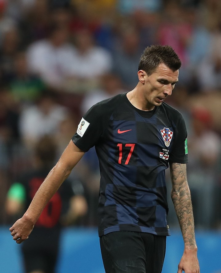 Mario Mandžukić